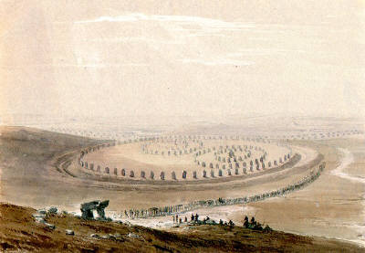 Ancient temple at Avebury Wiltshire